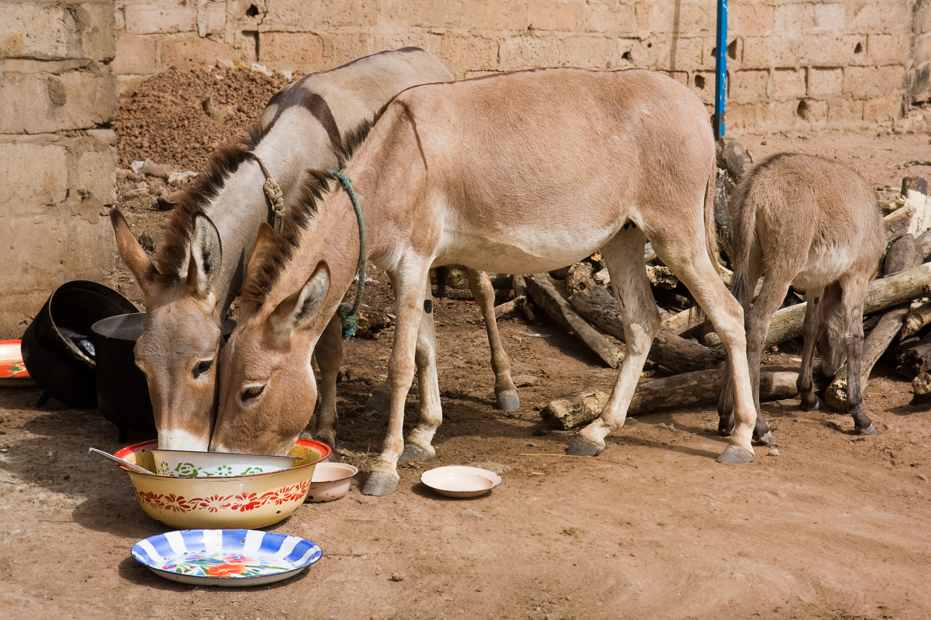 Donkeys eating our leftover food in Damfa Kunda/The Gambia